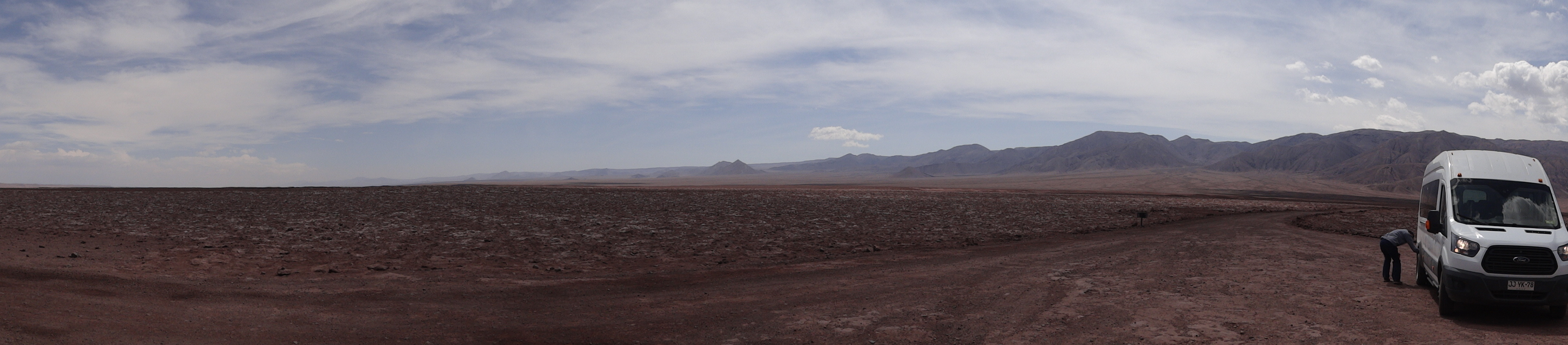 Actacama salt desert